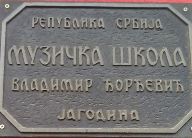 Board of music school in Jagodina Српски (ћирилица): Табла музичке школе у Јагодини